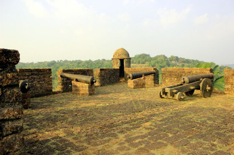 Cannos at Reis Magos